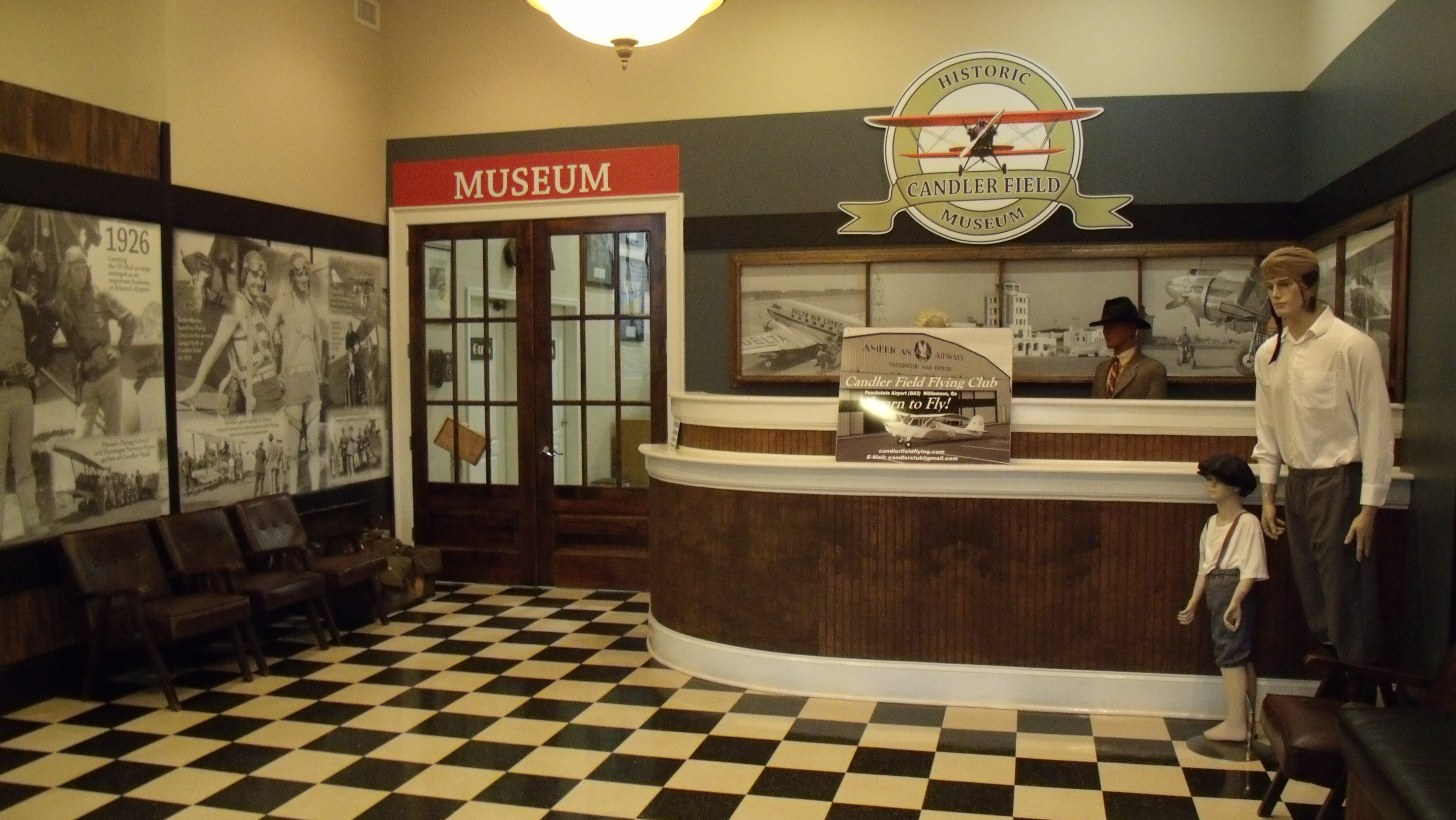 Lobby at Candler Field Museum, designed after the original Atlanta airport terminal.